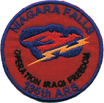 136th Expeditionary Airlift Squadron Operation Iraqi Freedom patch, 2009